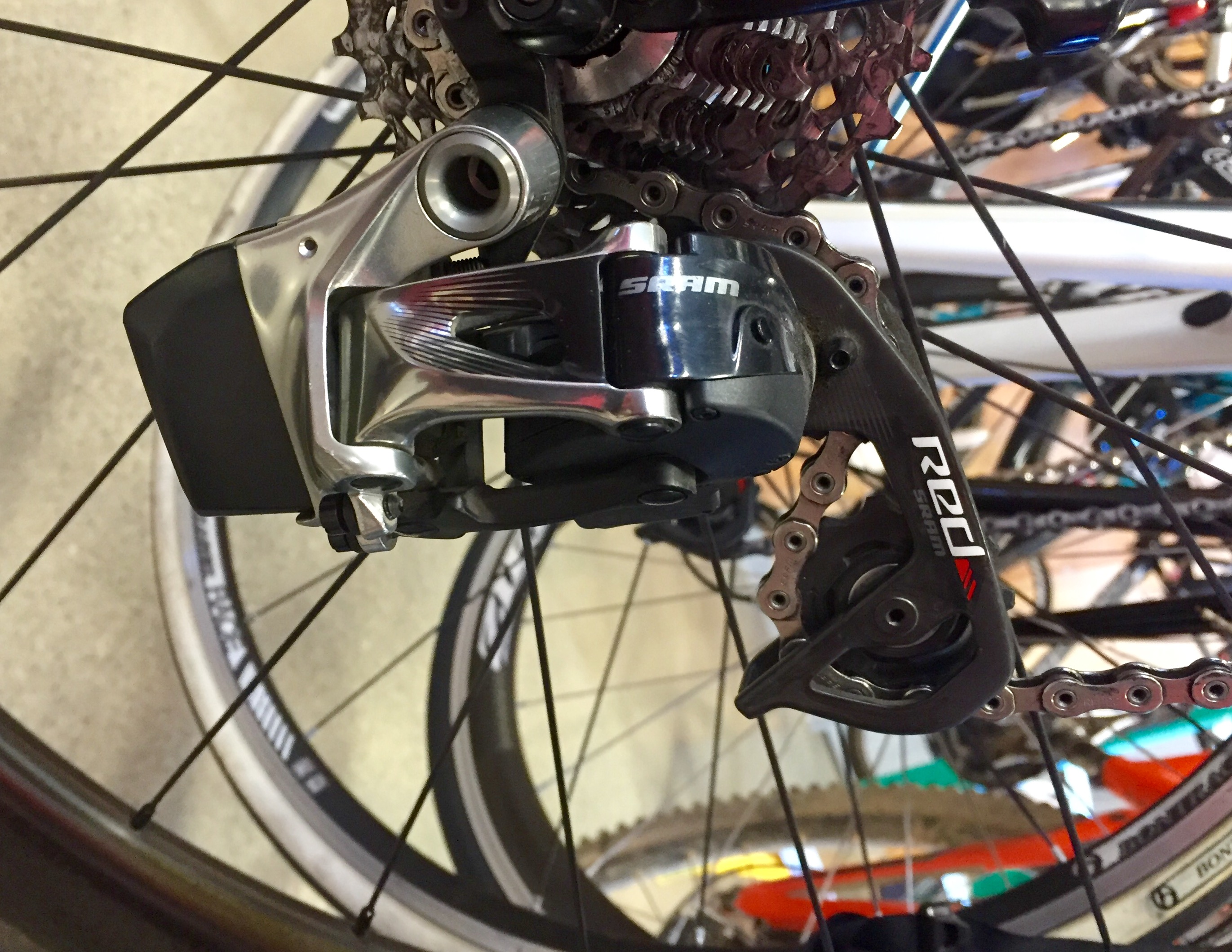 Production SRAM RED eTap rear derailleur installed on bike.